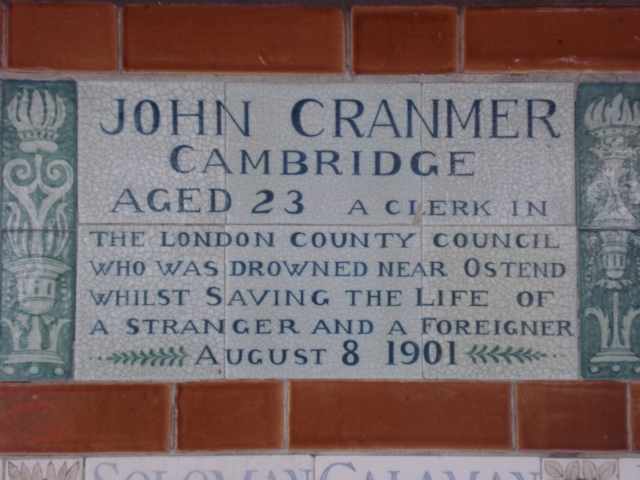 Memorial to John Cranmer Cambridge, Postman's Park, London